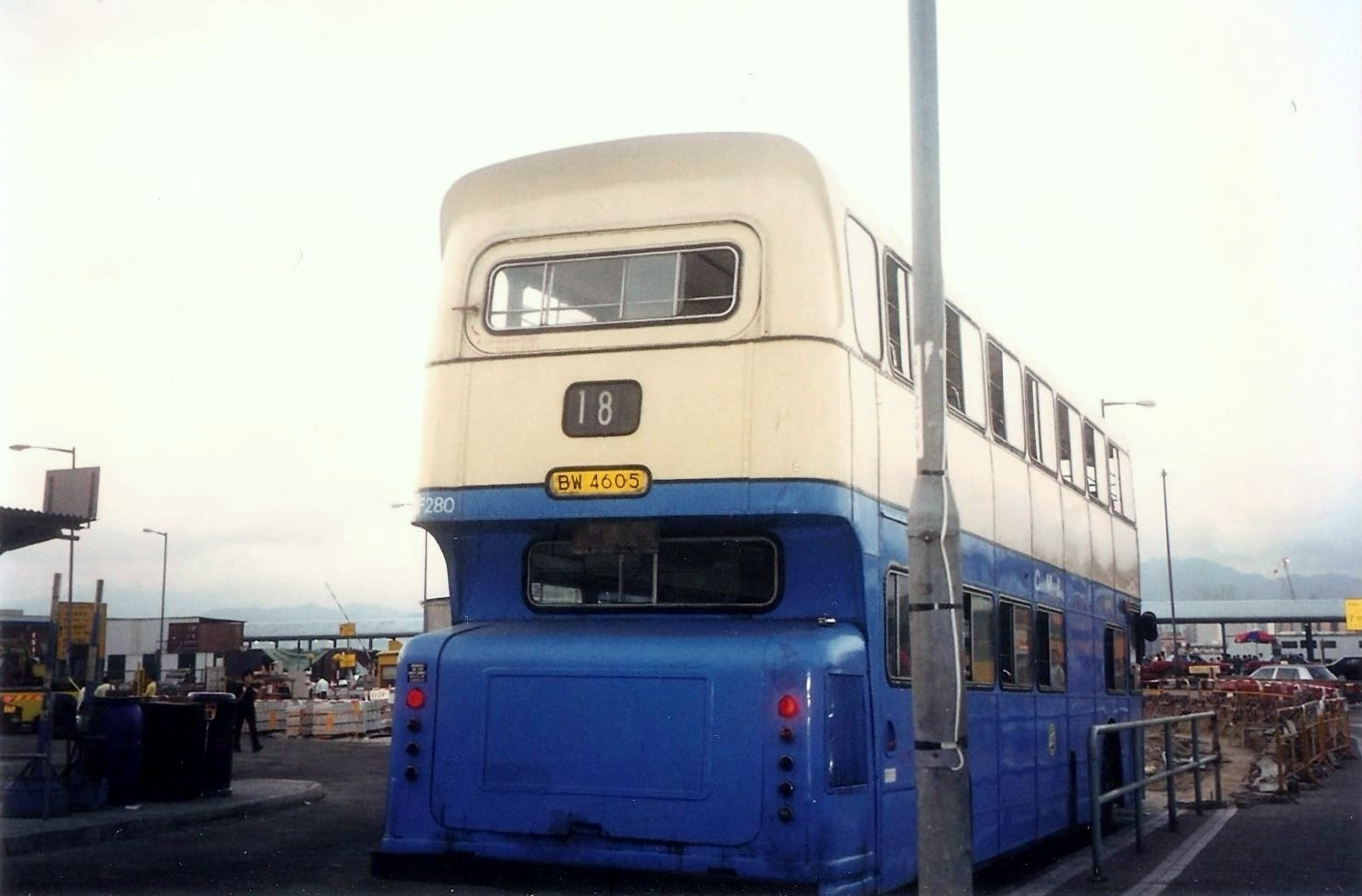 A Daimler Fleetline bus of China Motor Bus, numbered LF280, taken at Central Pier shortly before CMB lost its franchise in 1998.